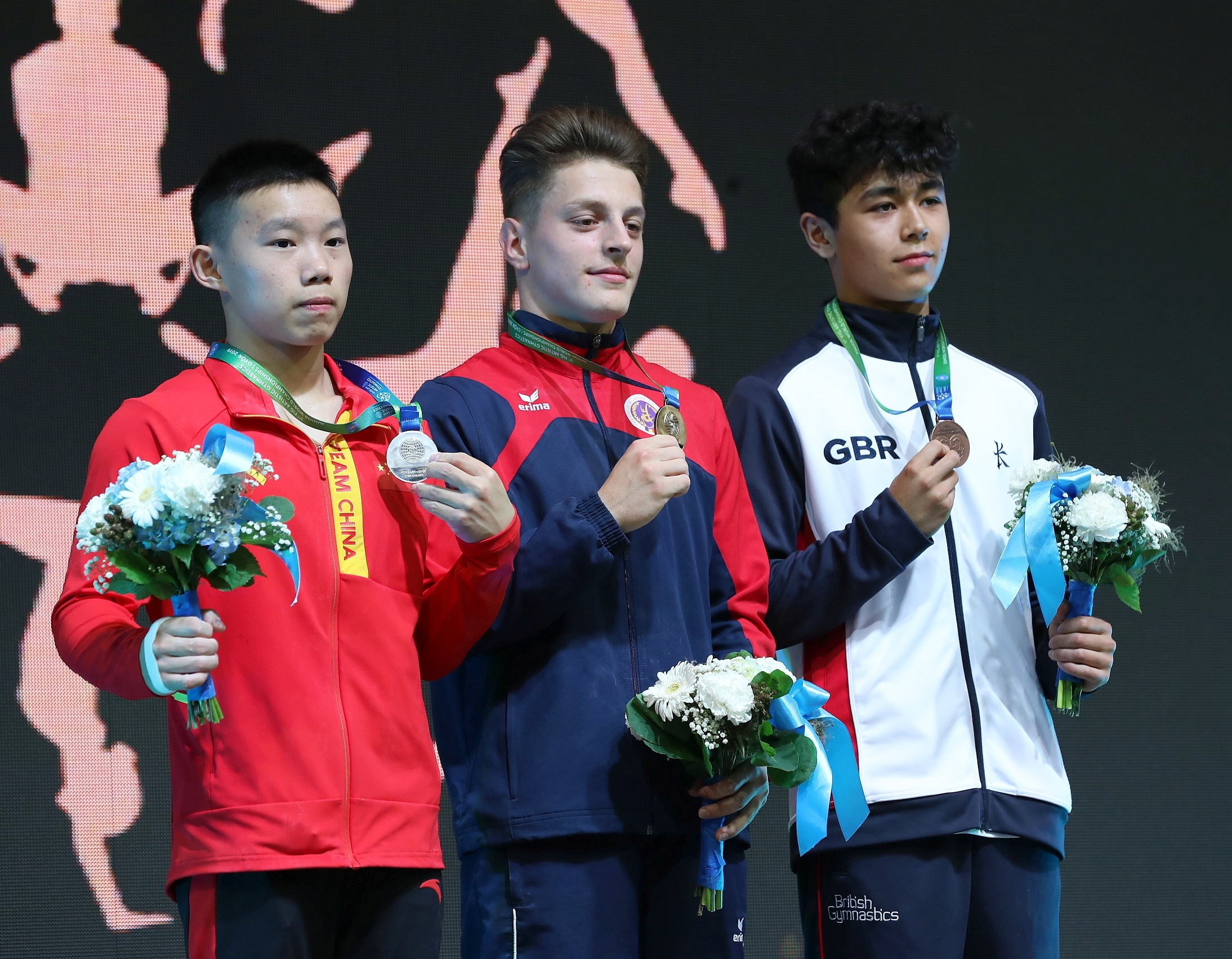 Vault victory ceremony during the boys' apparatus finals at the 1st FIG Artistic Gymnastics Junior World Championships on 30 June 2019 in Győr, Hungary. Depicted: Gabriel Burtănete. Haonan Yang. Jasper Smith-Gordon.